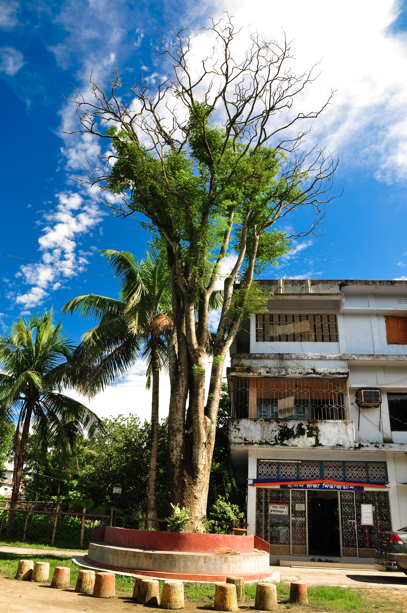 Hason Raja Meusium, Sunamganj, Bangladesh.